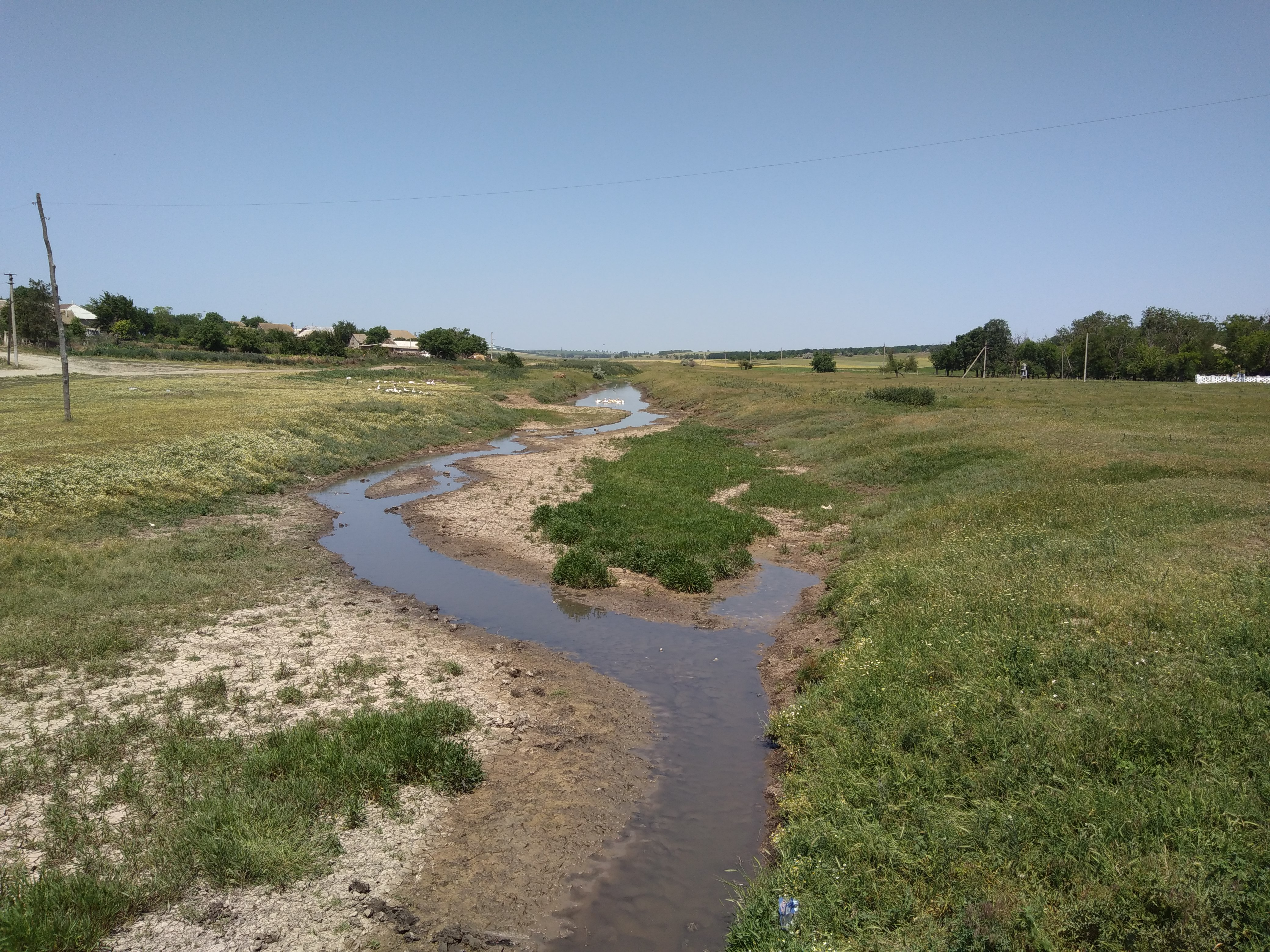 Malyj Katlabuh River, Odesa Oblast, Ukraine